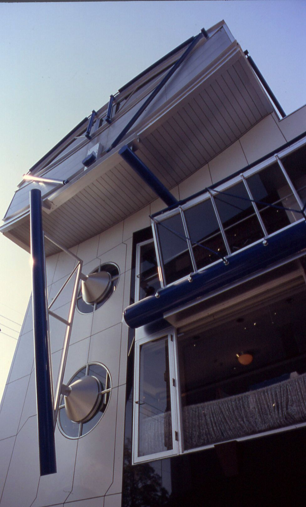 Takamatsu Shin: Week building, 1986, Kyoto